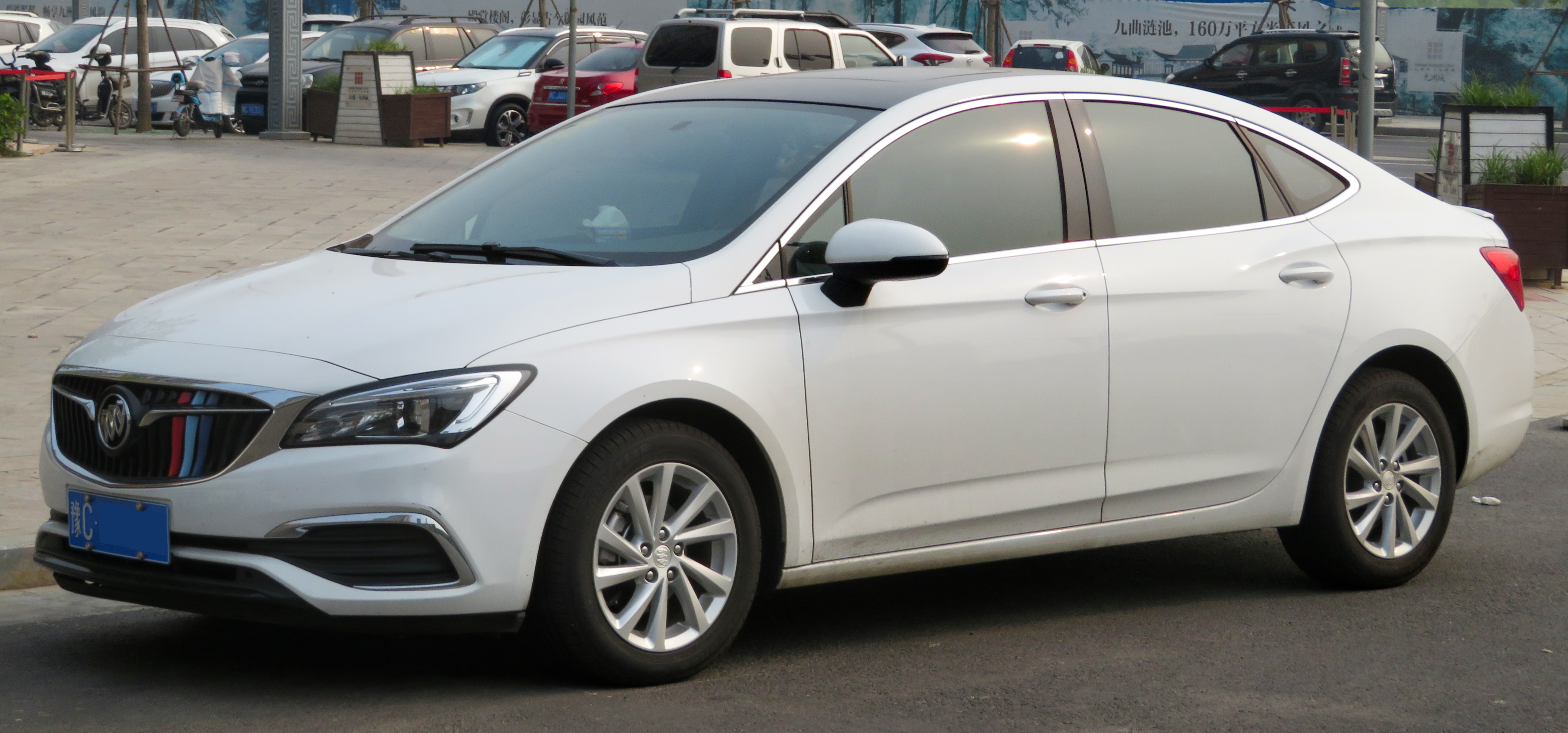 A 2018 Shanghai-GM Buick Verano photographed in Xigong District, Luoyang, Henan province, China